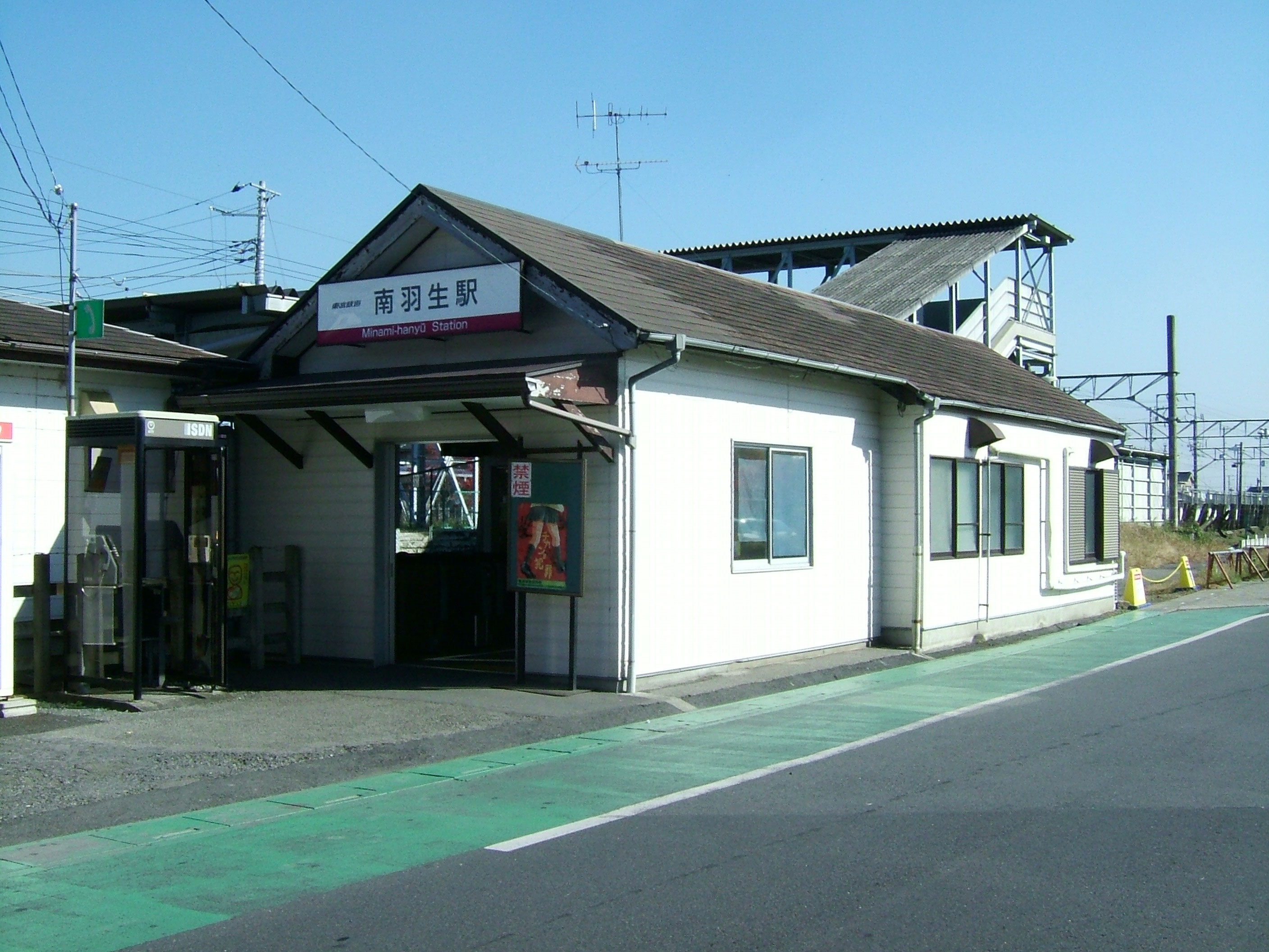 Minami-Hanyū Station building (Tōbu Railway Isesaki Line)